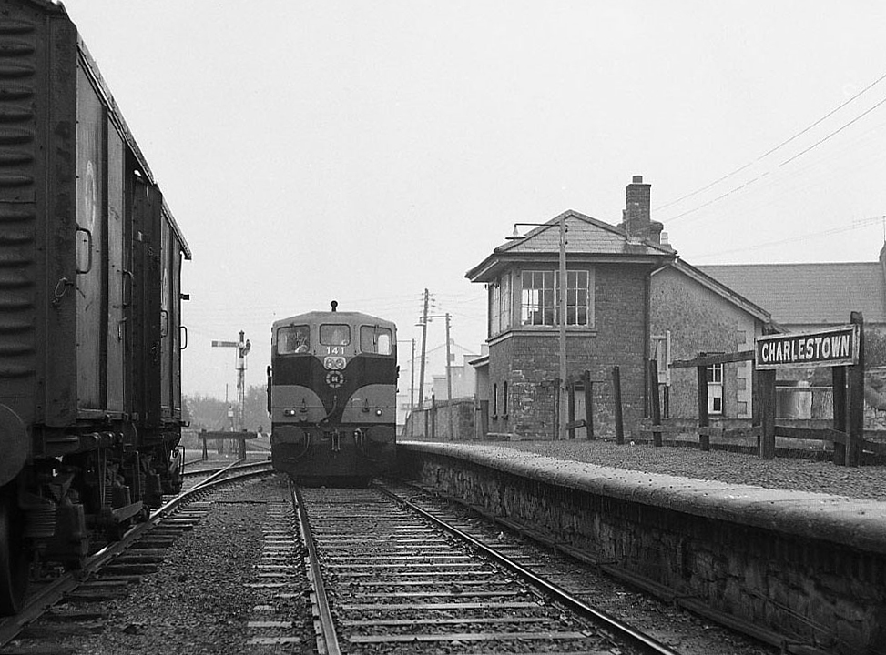 A Sligo - Limerick freight train calls at Charlestown station. This section of the Burma Road closed from 3 November 1975. While the imposing signal cabin has gone, some buildings are believed to remain at this site.